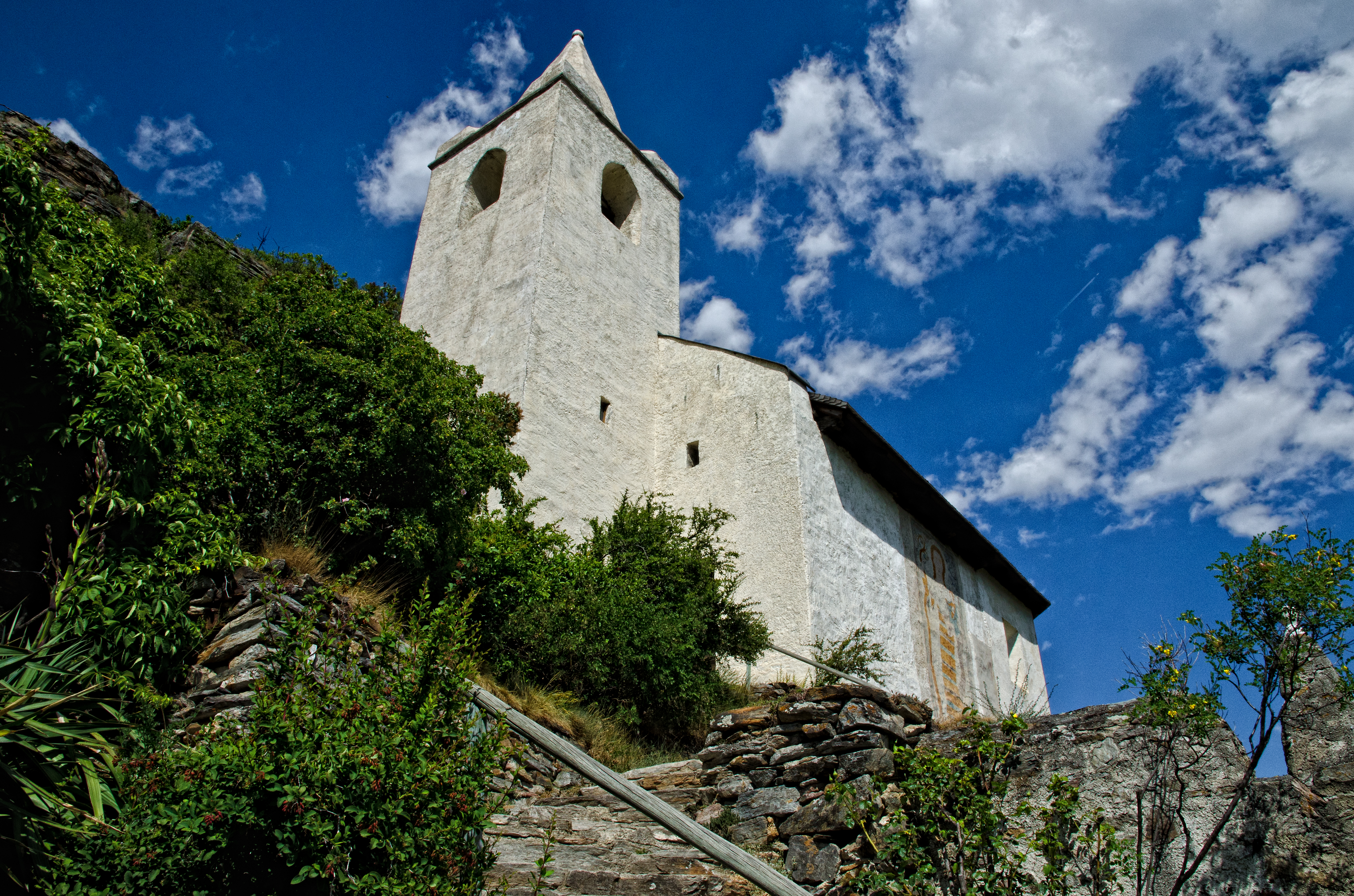 Chapel of St. Giles. Schlanders-Kortsch, South Tyrol